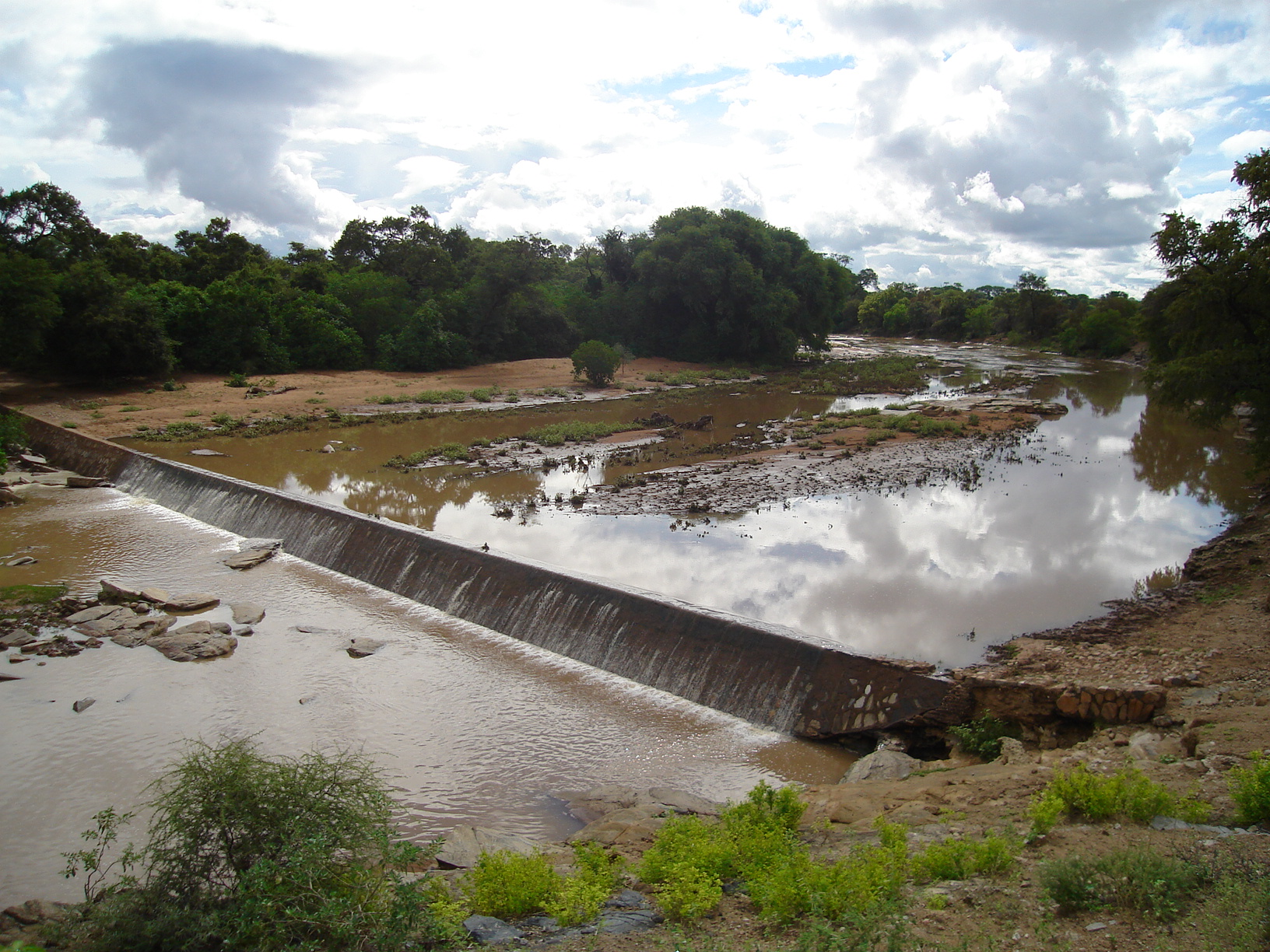 The Umcabezi River in Siyoka, Zimbabwe